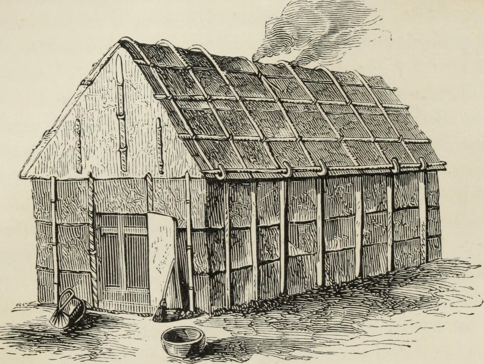 Title: The Iroquois : or, the bright side of Indian character Year: 1855 (1850s) Authors: Johnson, Anna C. (Anna Cummings), 1818-1892 Subjects: Iroquois Indians Publisher: New York : D. Appleton and Co. Text Appearing Before Image: dy of gain, was something which they couldnot comprehend. In many of their villages there was a Strangers Home—a house for strangers, where they were placed, while theold men went about collecting skins for them to sleepupon, and food for them to eat, expecting no reward. They called it very rude for people to stare at them,as they passed in the streets, and said that they had asmuch curiosity as white people, but they did not gratifyit by intruding upon them and examining them. Theywould sometimes hide behind trees, in order to look atstrangers, but never stood openly and gazed at them. Theirrespectful attention to missionaries was often the result oftheir rules of politeness, as it is a part of the Indianscode, that every person should have a respectful hearing.Their councils are eminent for decorum, and no person isinterrupted during a speech. Some Indians, after respect-fully listening to a missionary, thought they would relateto bim some of their legends. But the good man could Text Appearing After Image: WIGWAM.